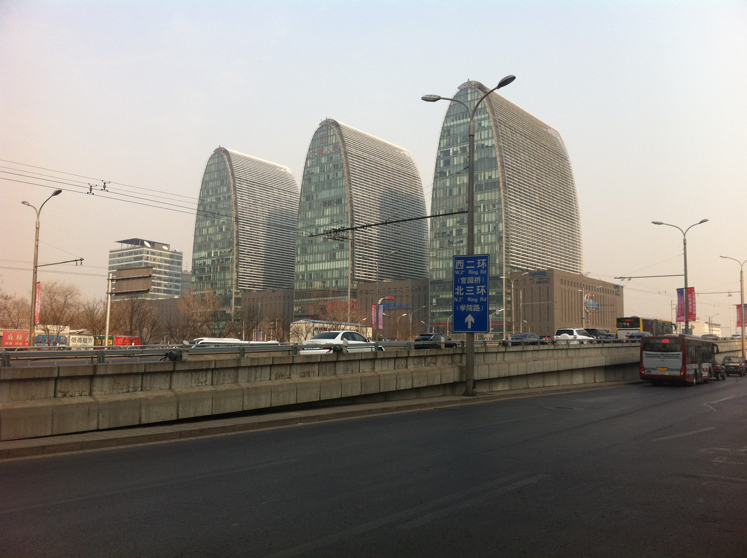 This is the symbol of Xizhimen region.